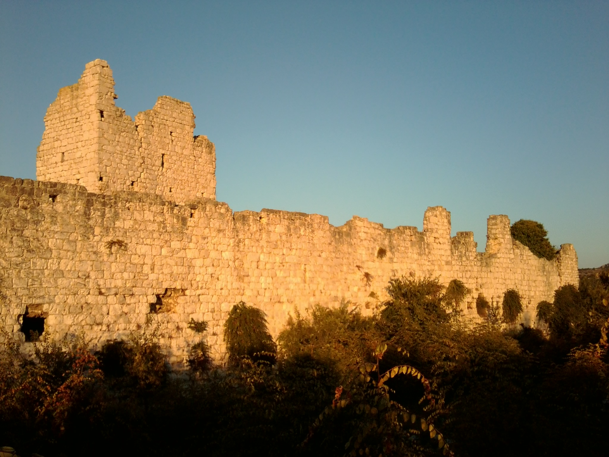 Burg Vrana, Croatia, bulwark and a tower